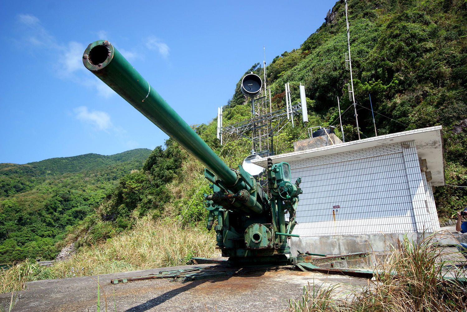 The military base on Gueishan Island.